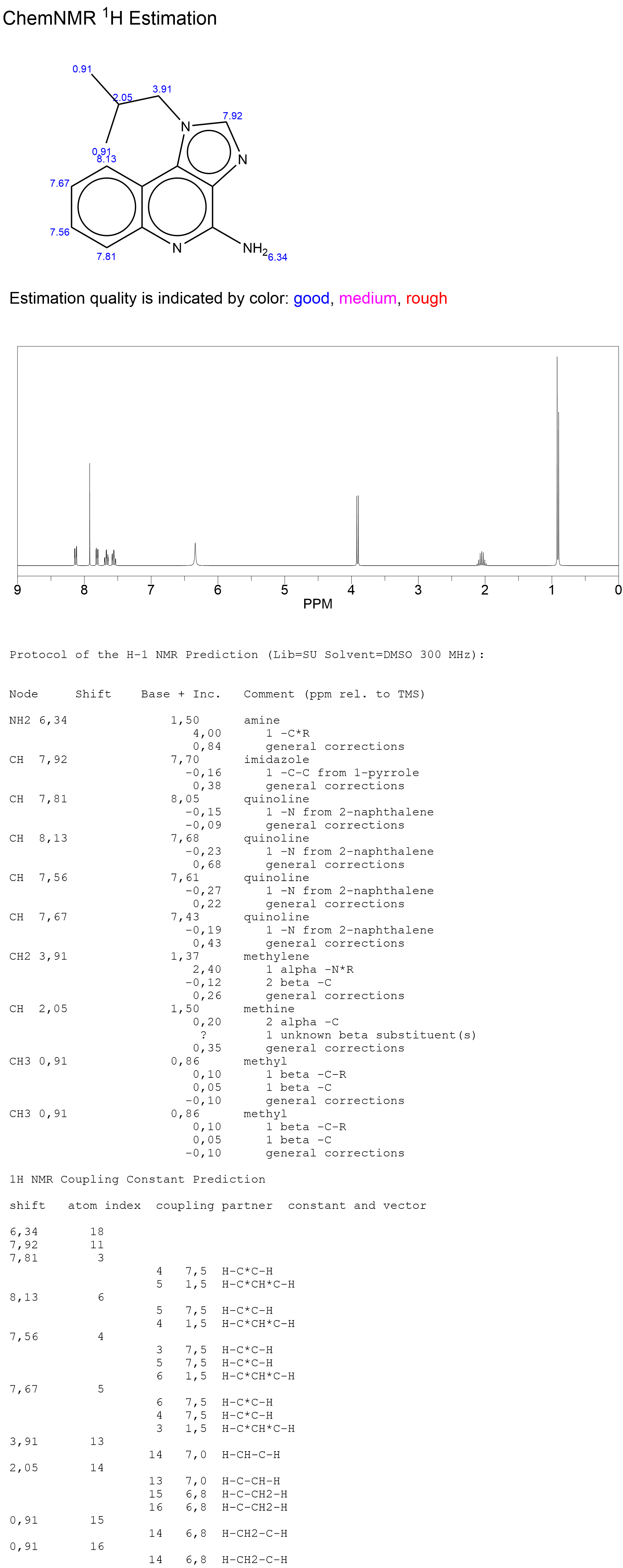 Imiquimod 1H NMR spectrum generated by ChemNMR.